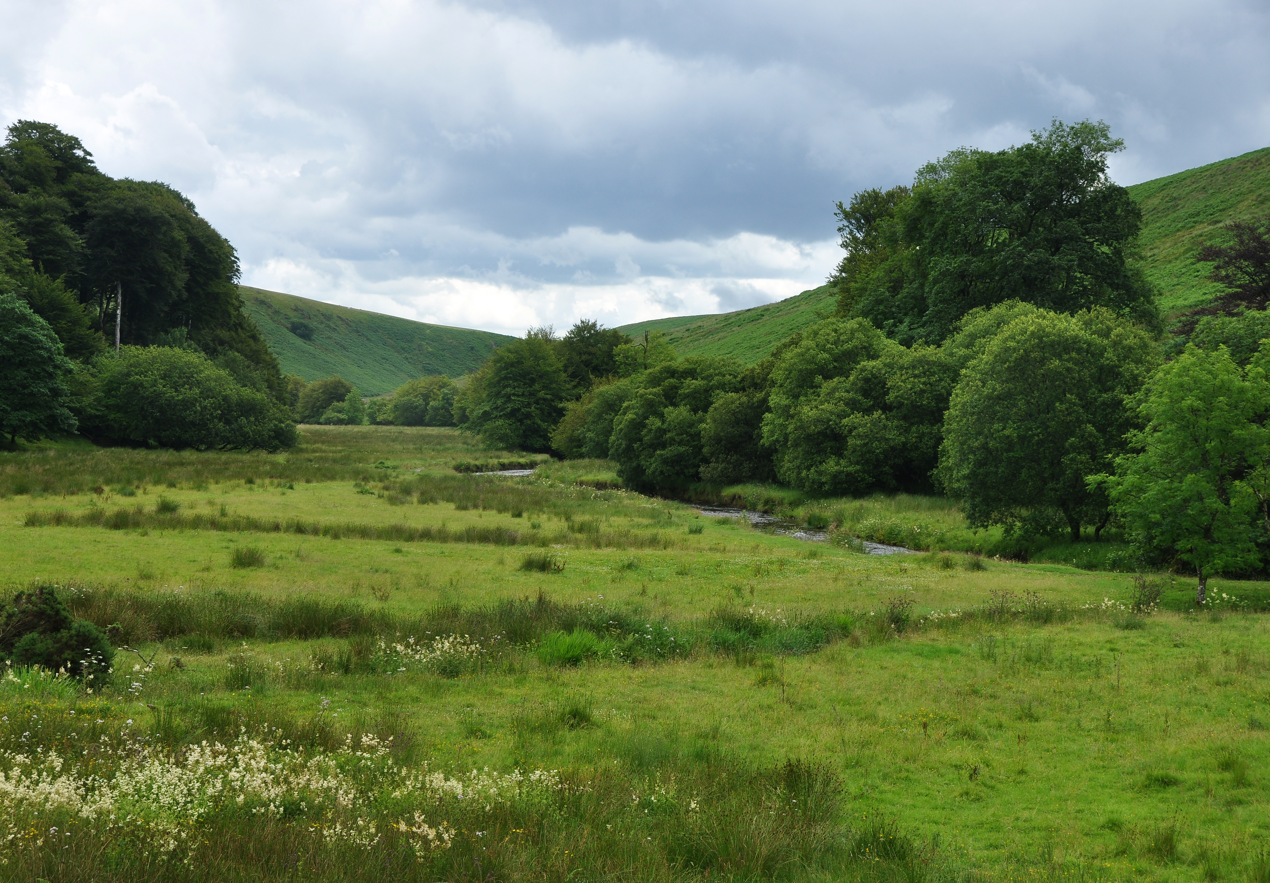 The River Barle, and its flood plain, below Simonsbath on Exmoor.